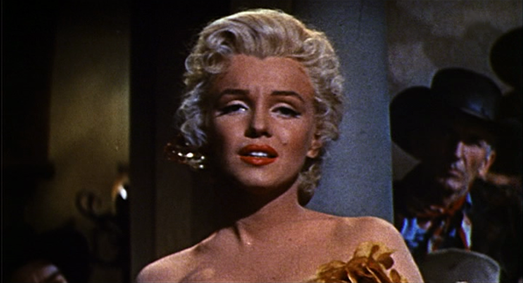 Marilyn Monroe in River of No Return (1954)